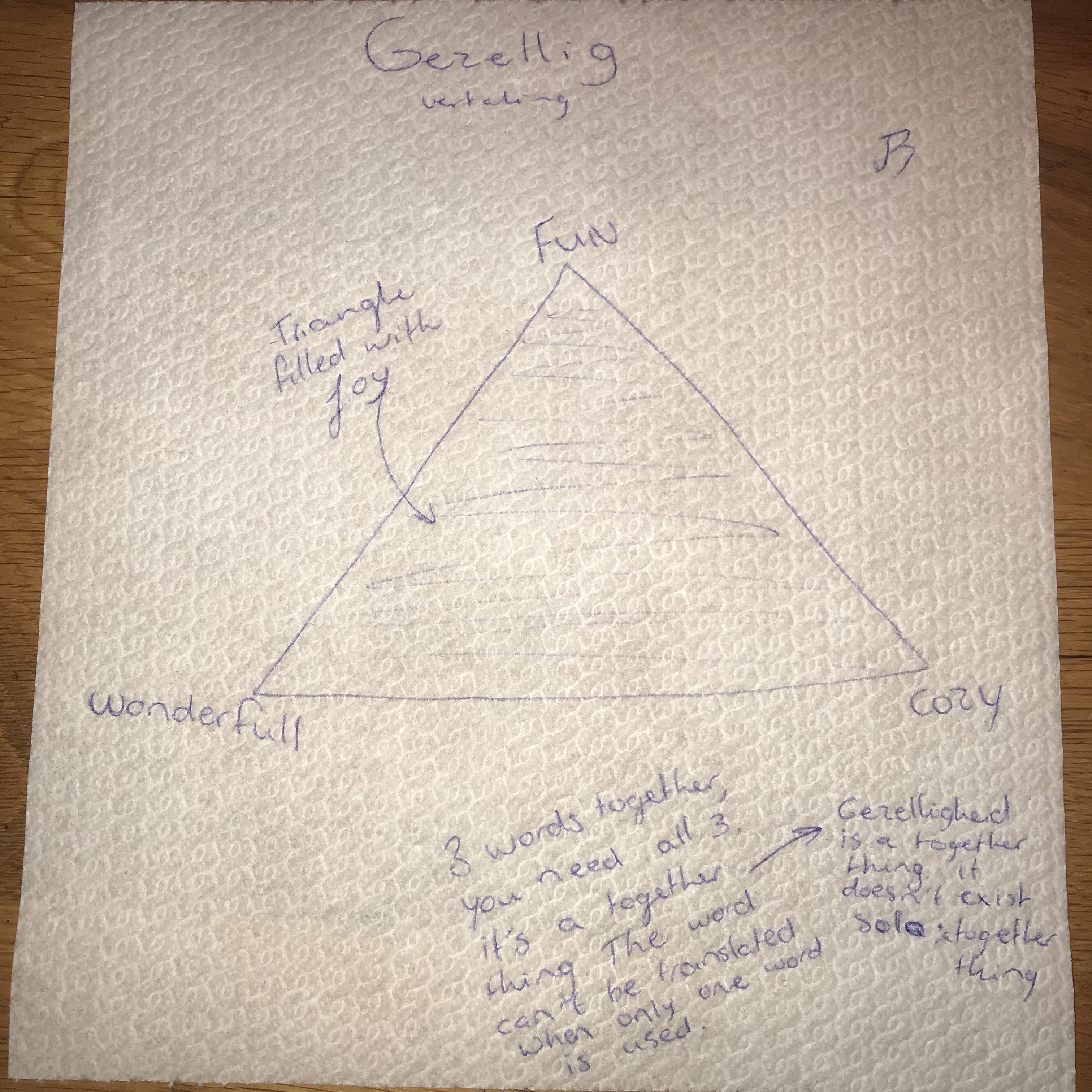 'gezelligheid' translation; first draft